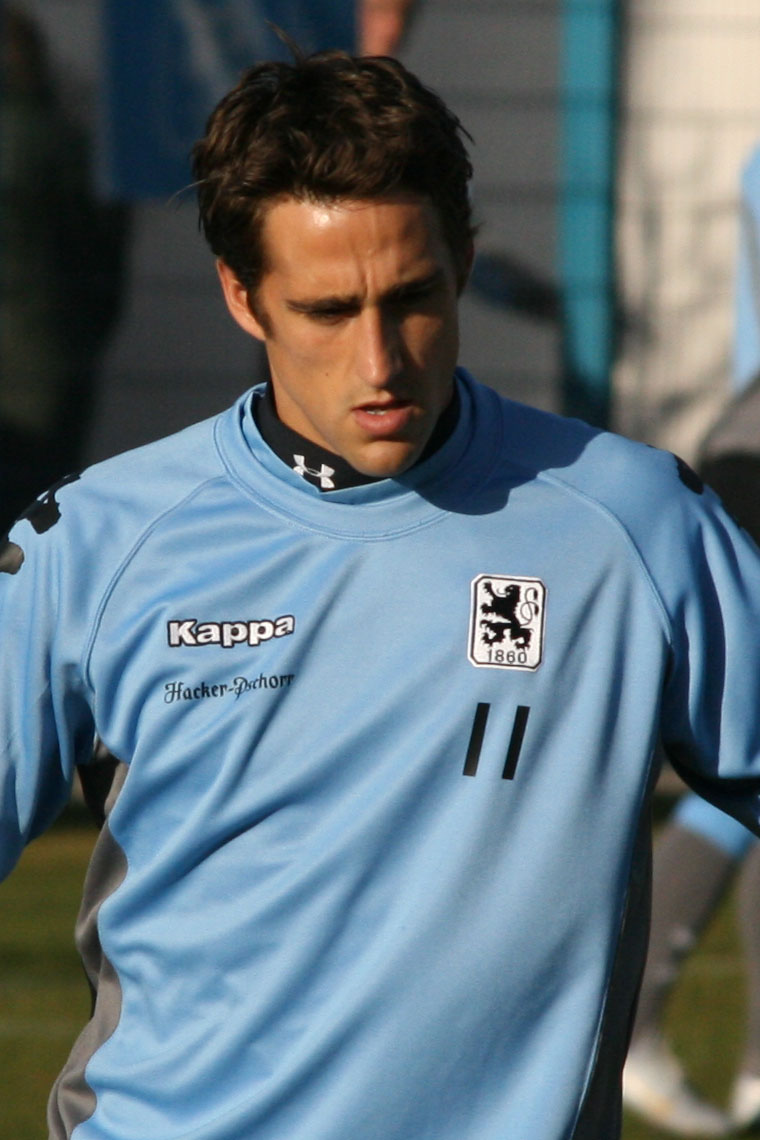 Josh Wolff, player of TSV 1860 München, training, 20.01.2007, Grünwalder Str., Munich